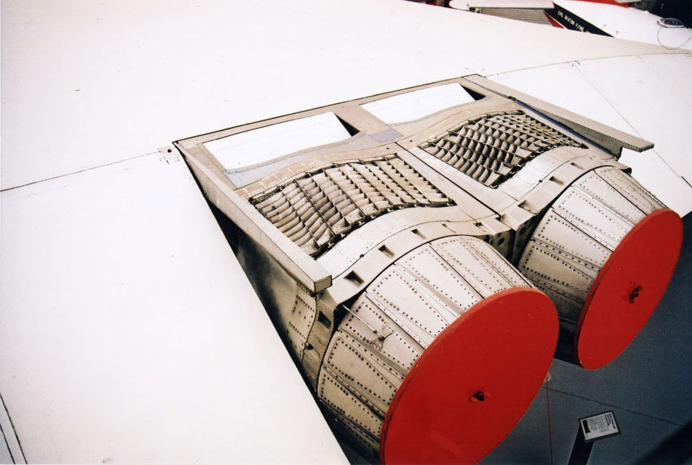 Taken and donated by User:Guinnog Concorde wing and engine detail at Imperial War Museum, Duxford